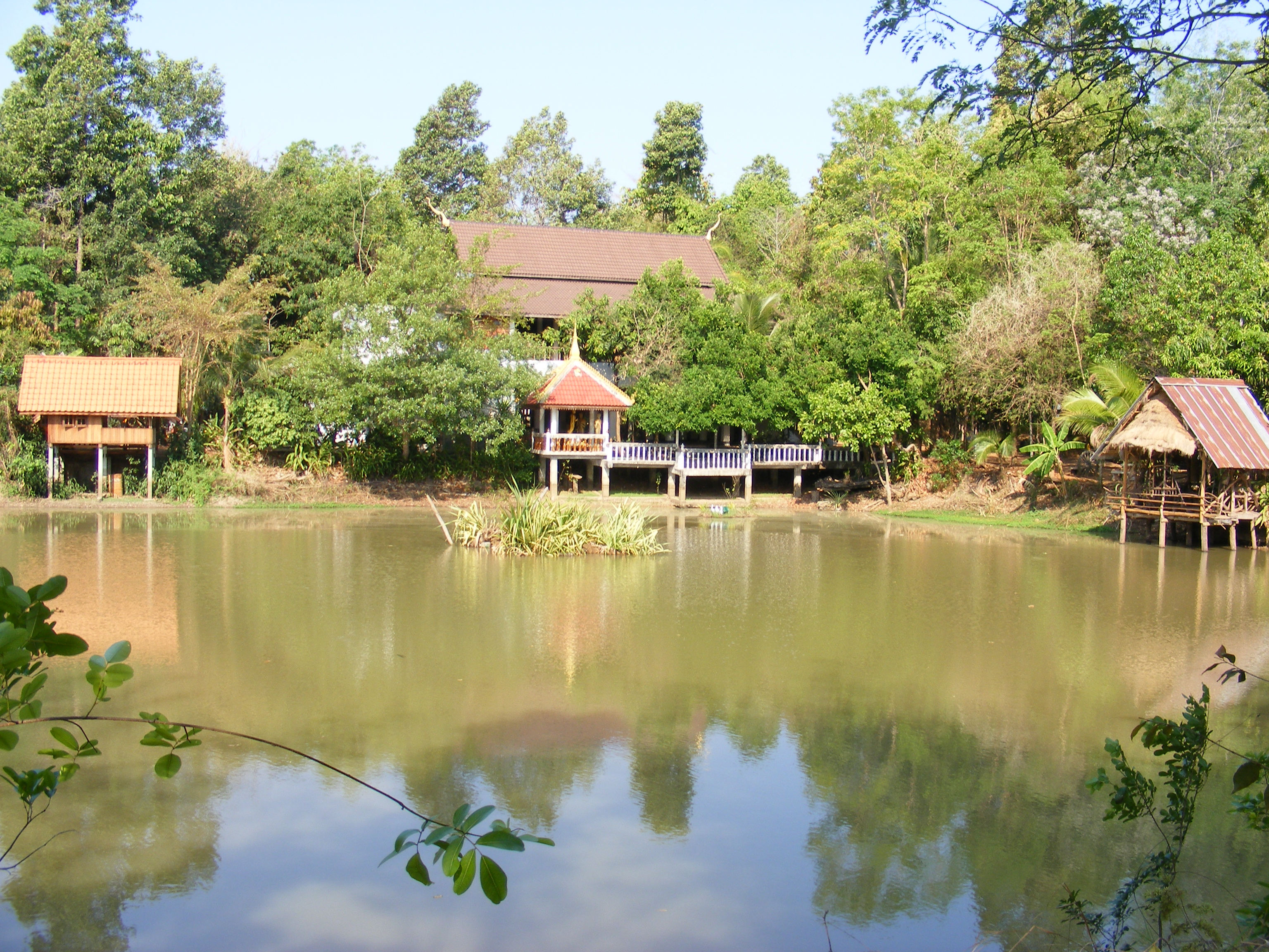 Buddhist temple near Nakhoon Noi, Na Wa community, Nakhon Phanom Province, Thailand.